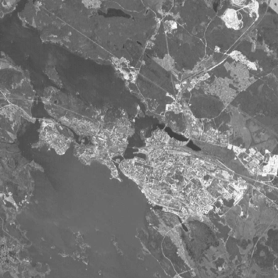 Vyborg from space.